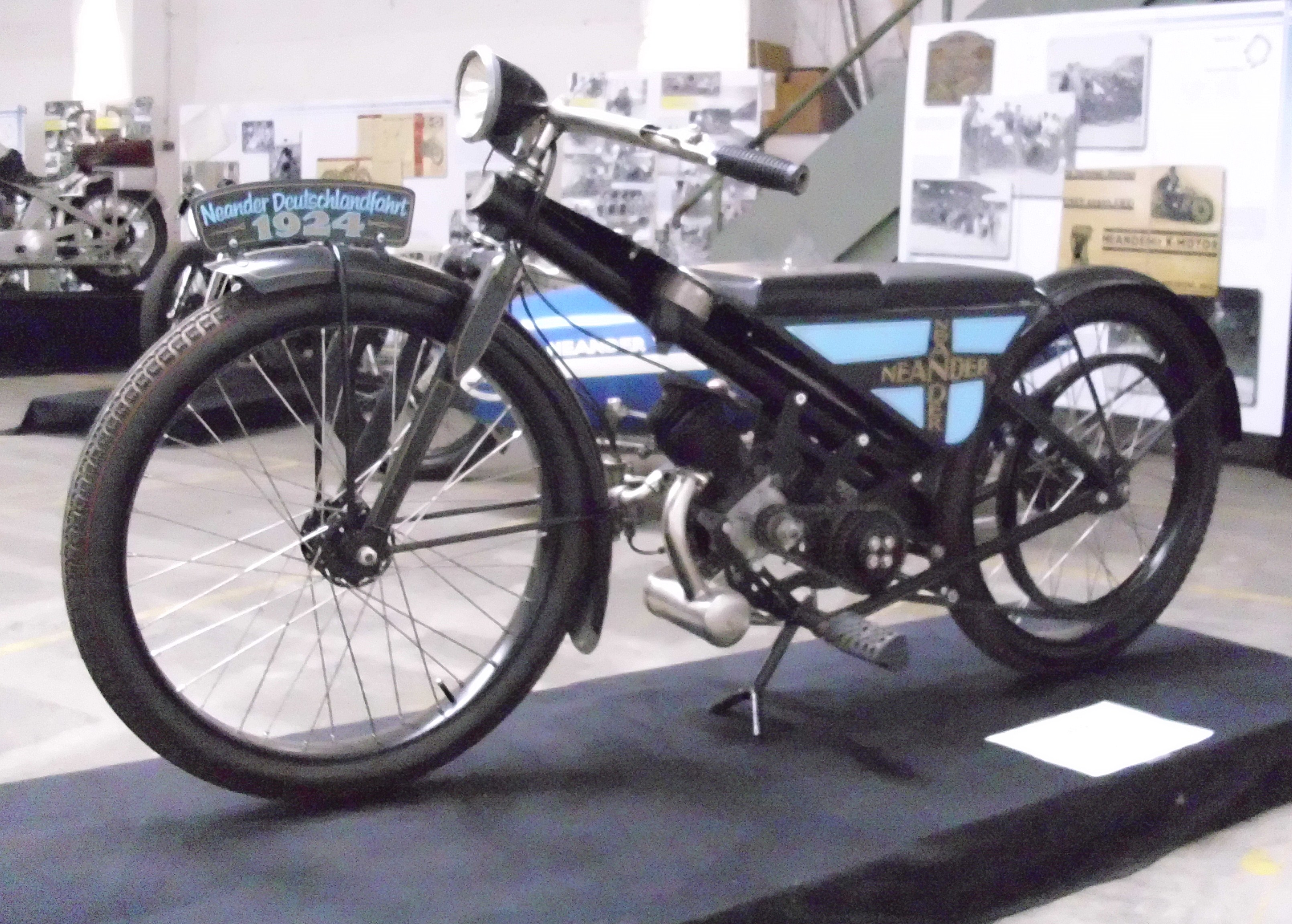 Neander P 1 Motorrad 1924